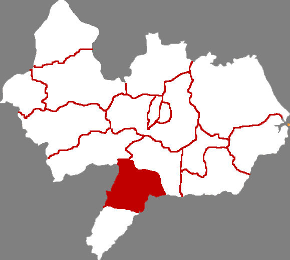 Location of Dongguang county in Cangzhou City, China